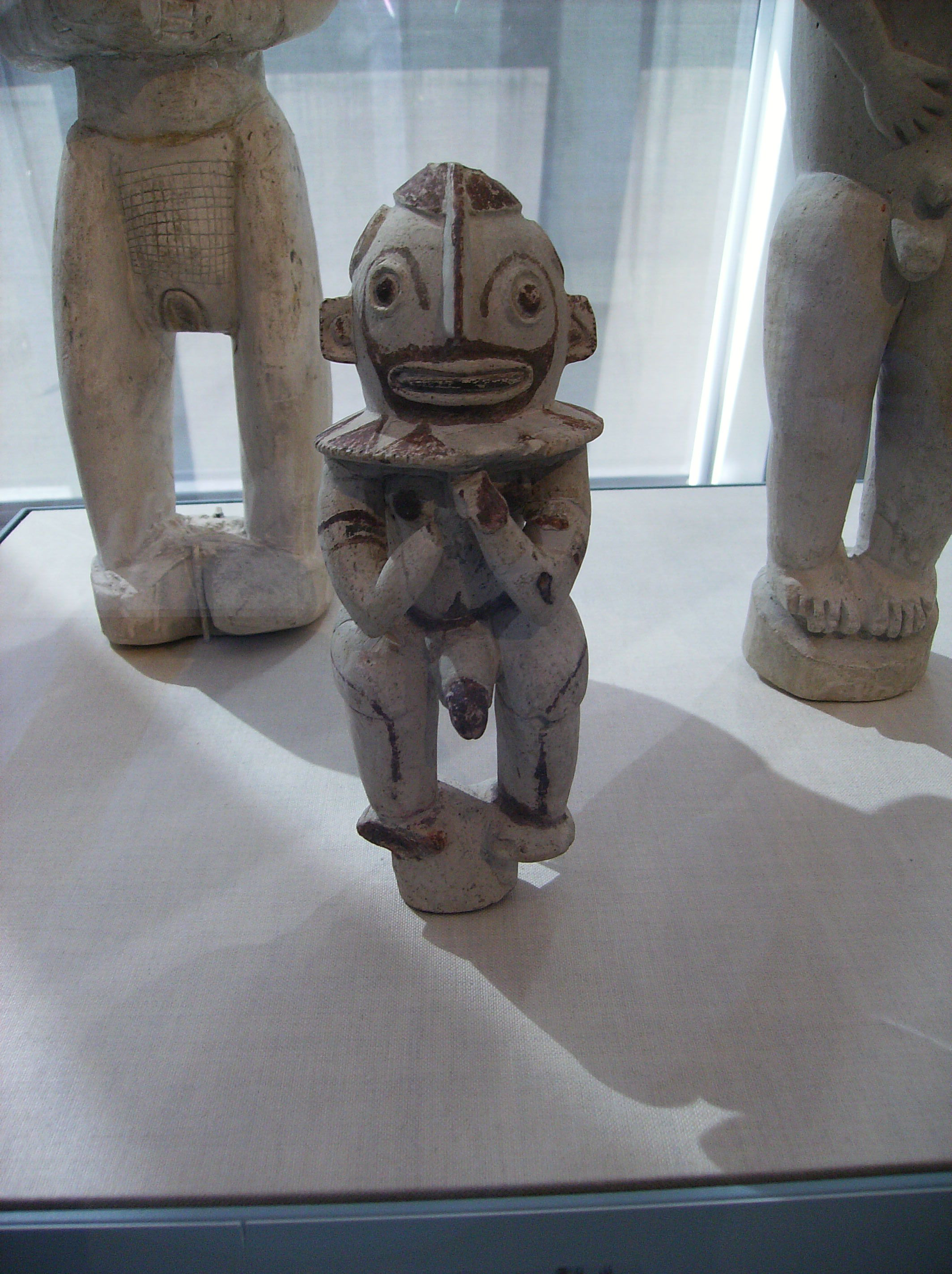 Funerary Figure (kulap) (Namatanai: Southern New Ireland)